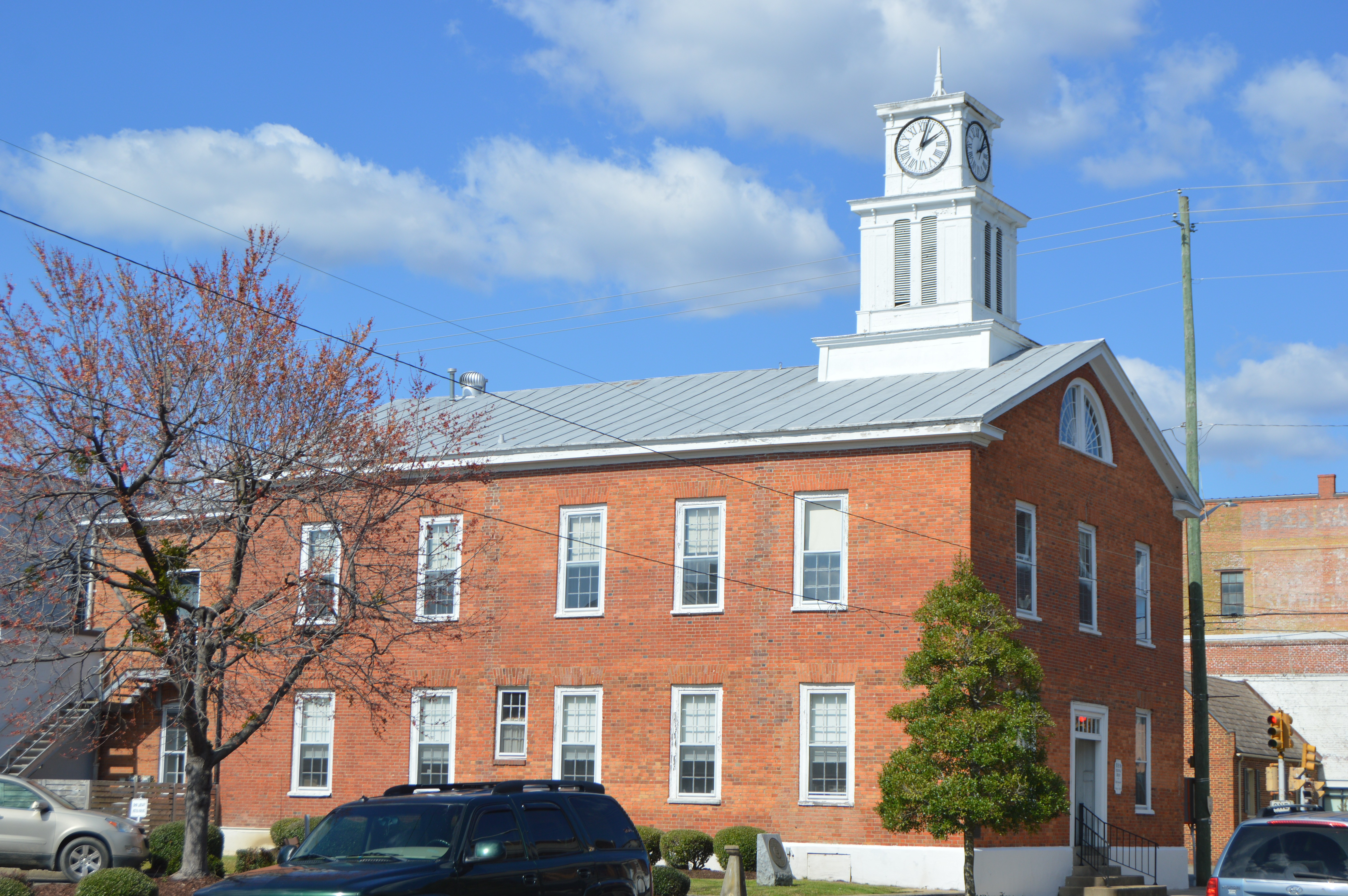 Southern side and front of the former Beaufort County Courthouse, located on the southwestern corner of the intersection of Second and Market Streets in Washington, North Carolina, United States. Built in 1786, it is listed on the National Register of Historic Places.